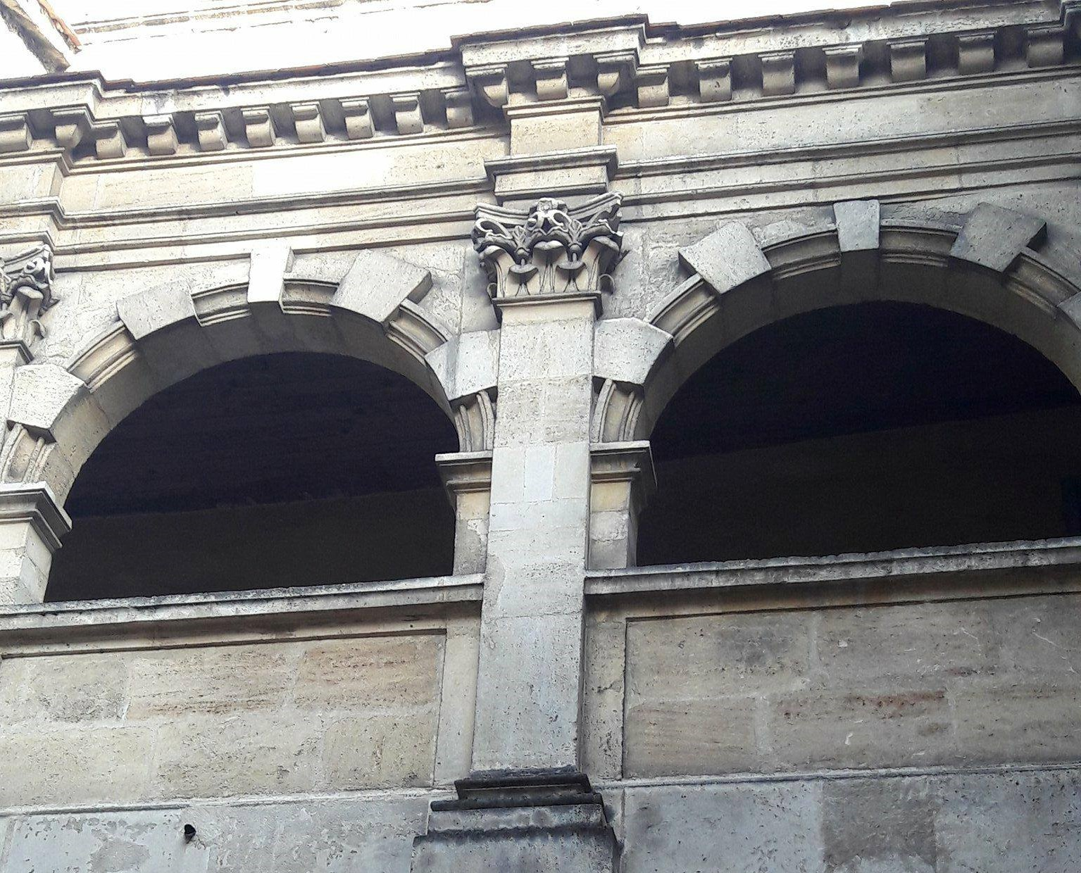 Mairerie (Bordeaux)